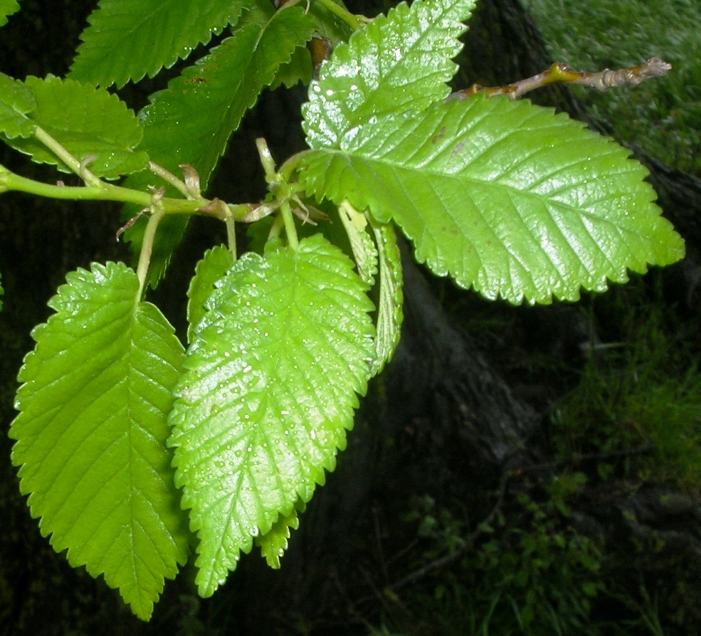 Ulmus minor subsp. minor Photo taken by the author, May 2008